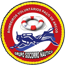 BVPA-LogoGSN